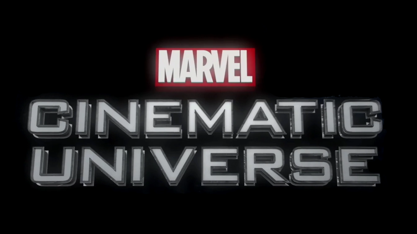 Logo for the Marvel Cinematic Universe